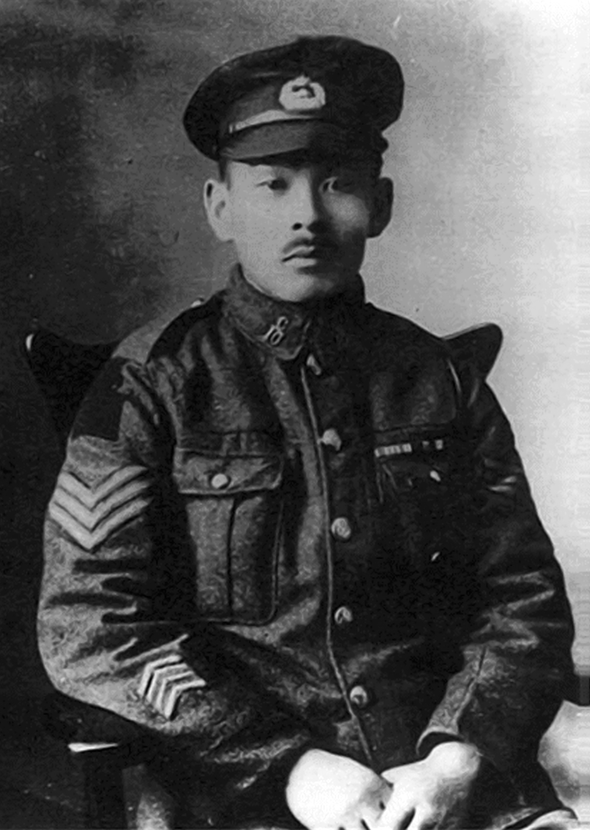 Photograph of Masami Mitsui as a young soldier. He served in the Canadian military from 1916 to 1919.